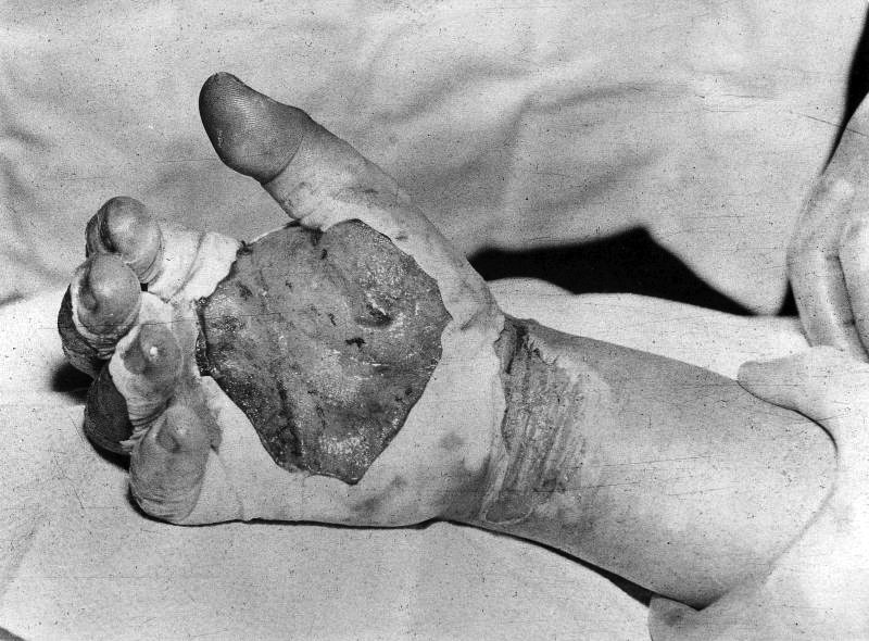 Harry K. Daghlian’s blistered and burnt hand 9 days after he received his fatal radiation dose from an accident at the Los Alamos National Laboratory. Daglian would die from radiation poisoning 16 days after this photo was taken.